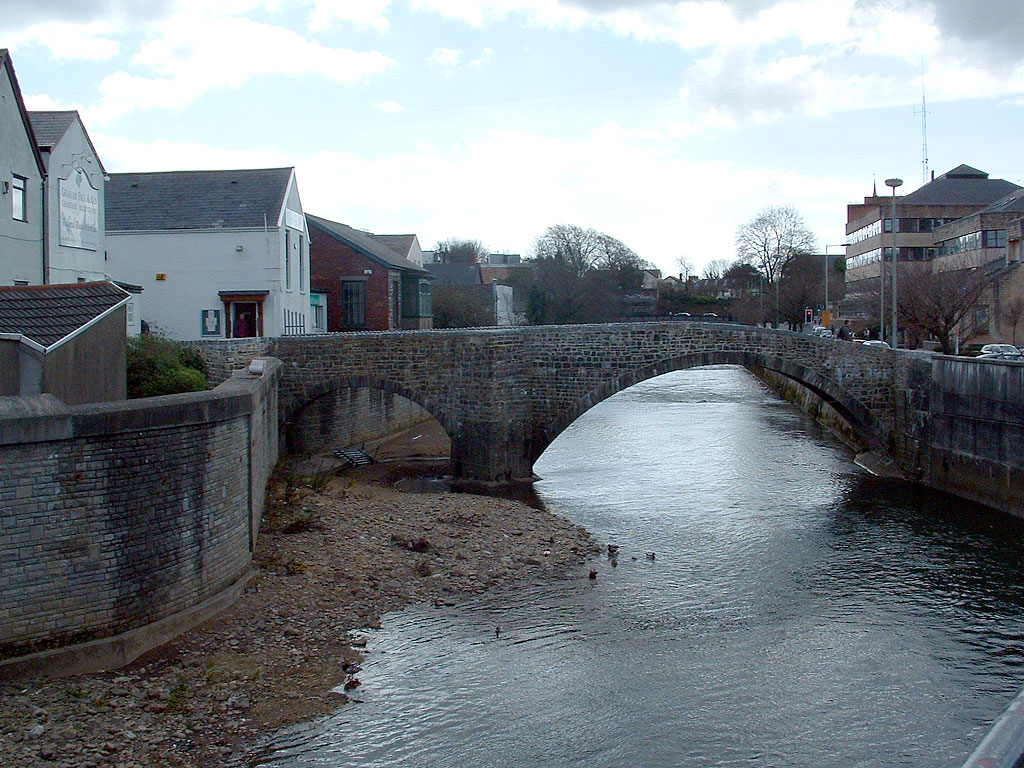 The Old Bridge Bridgend Jan 1st 2002